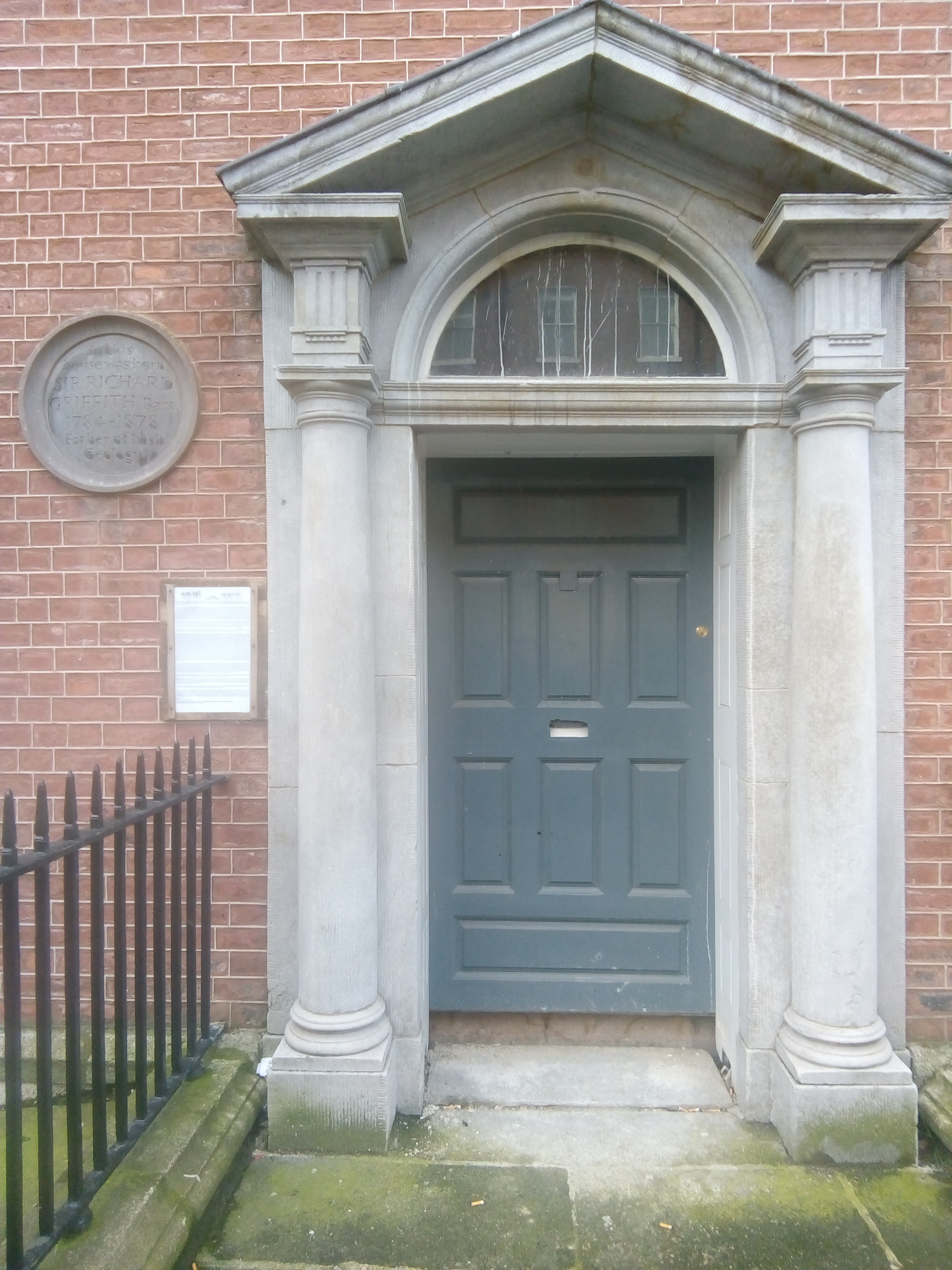 Doors in Dublin